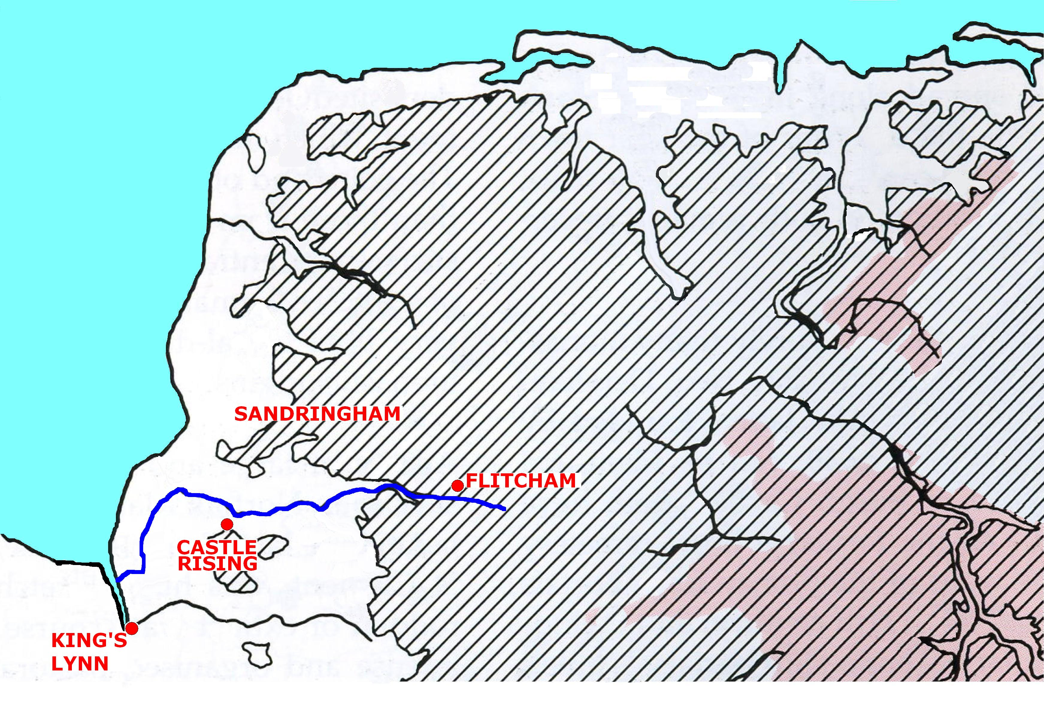 An Image created with paintbrush of a map of the river Babingley by M Hobbs